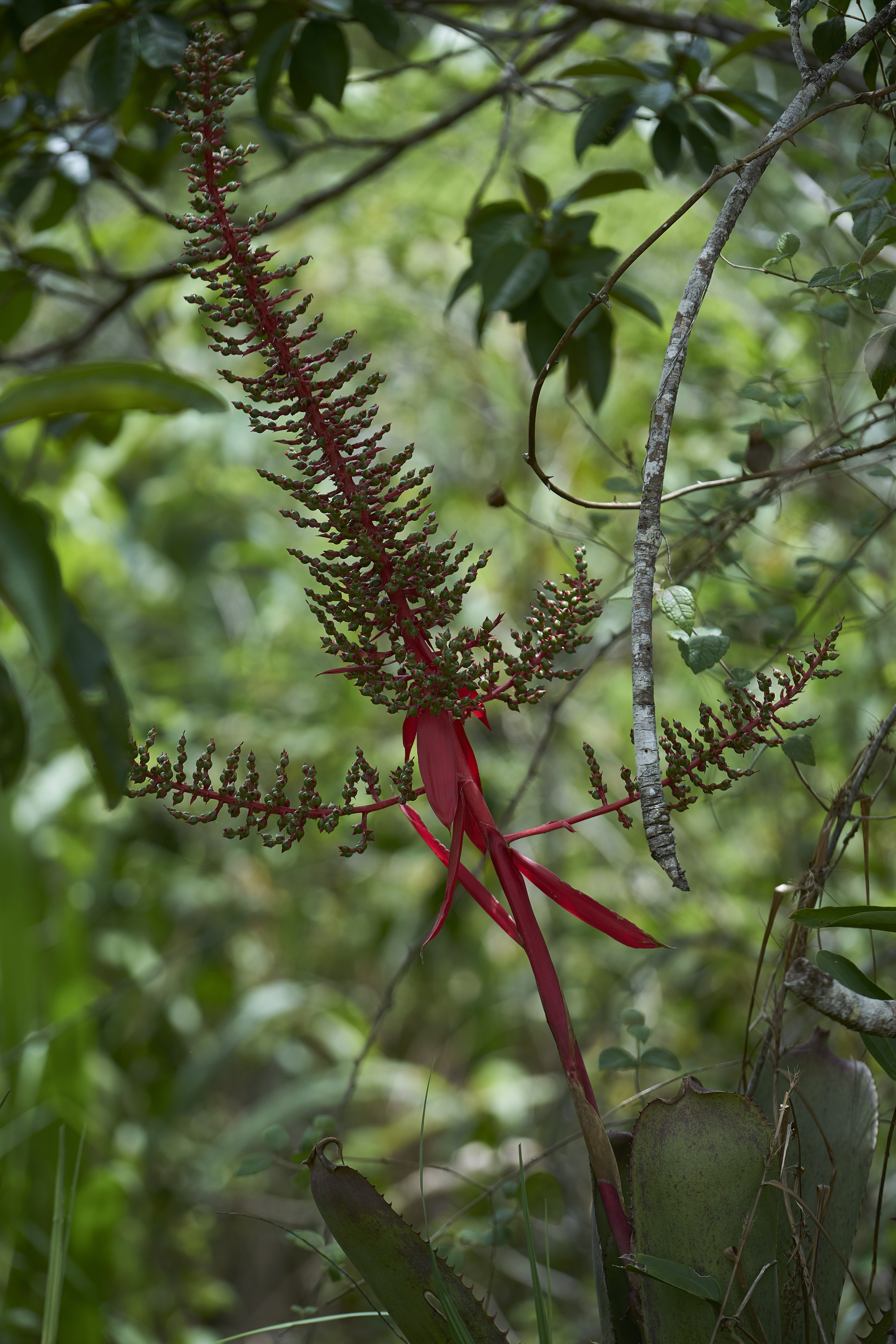 Aechmea bracteata, fruiting, ruderal @ Douglas da Silva Forestry Station, Mountain Pine Ridge Forest Reserve, Belize The making of this document was supported by the Community-Budget of Wikimedia Germany.